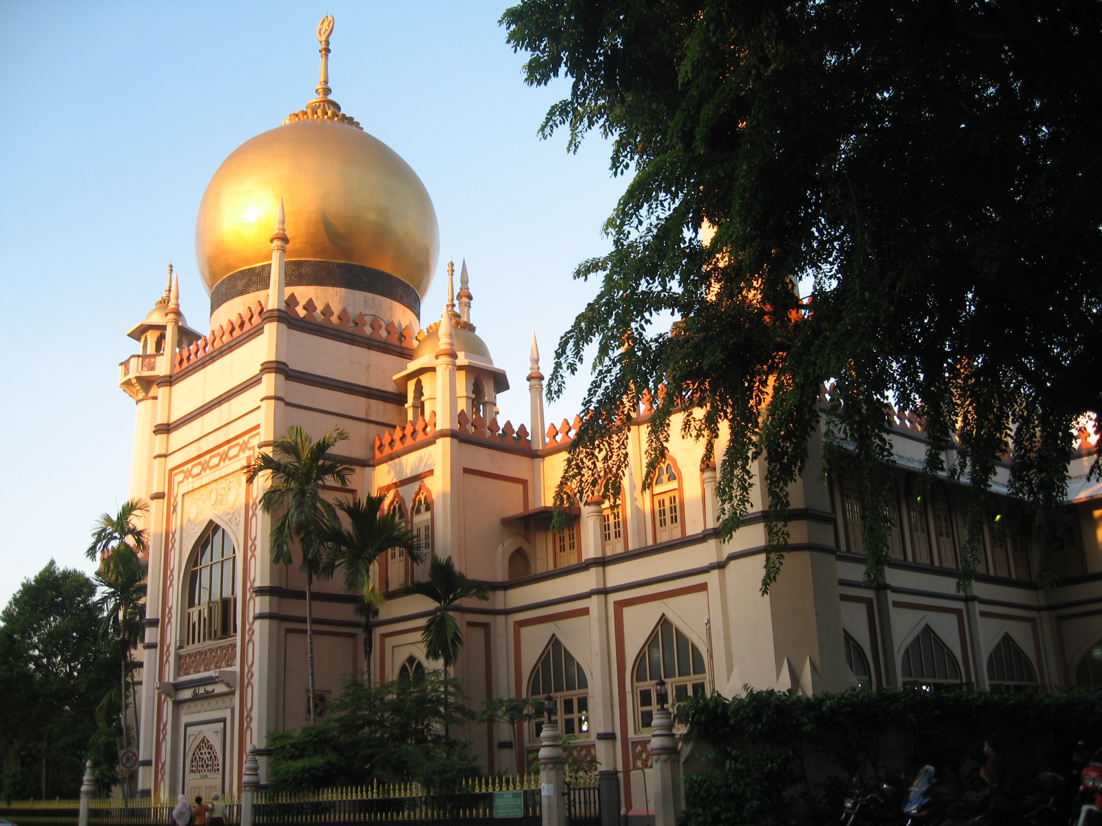 Masjid Sultan.